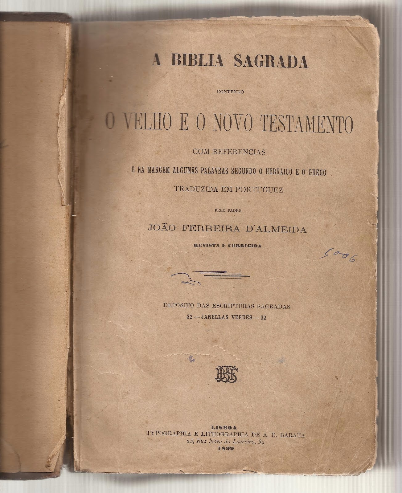 Holy Bible "João Ferreira de Almeida" year: 1899